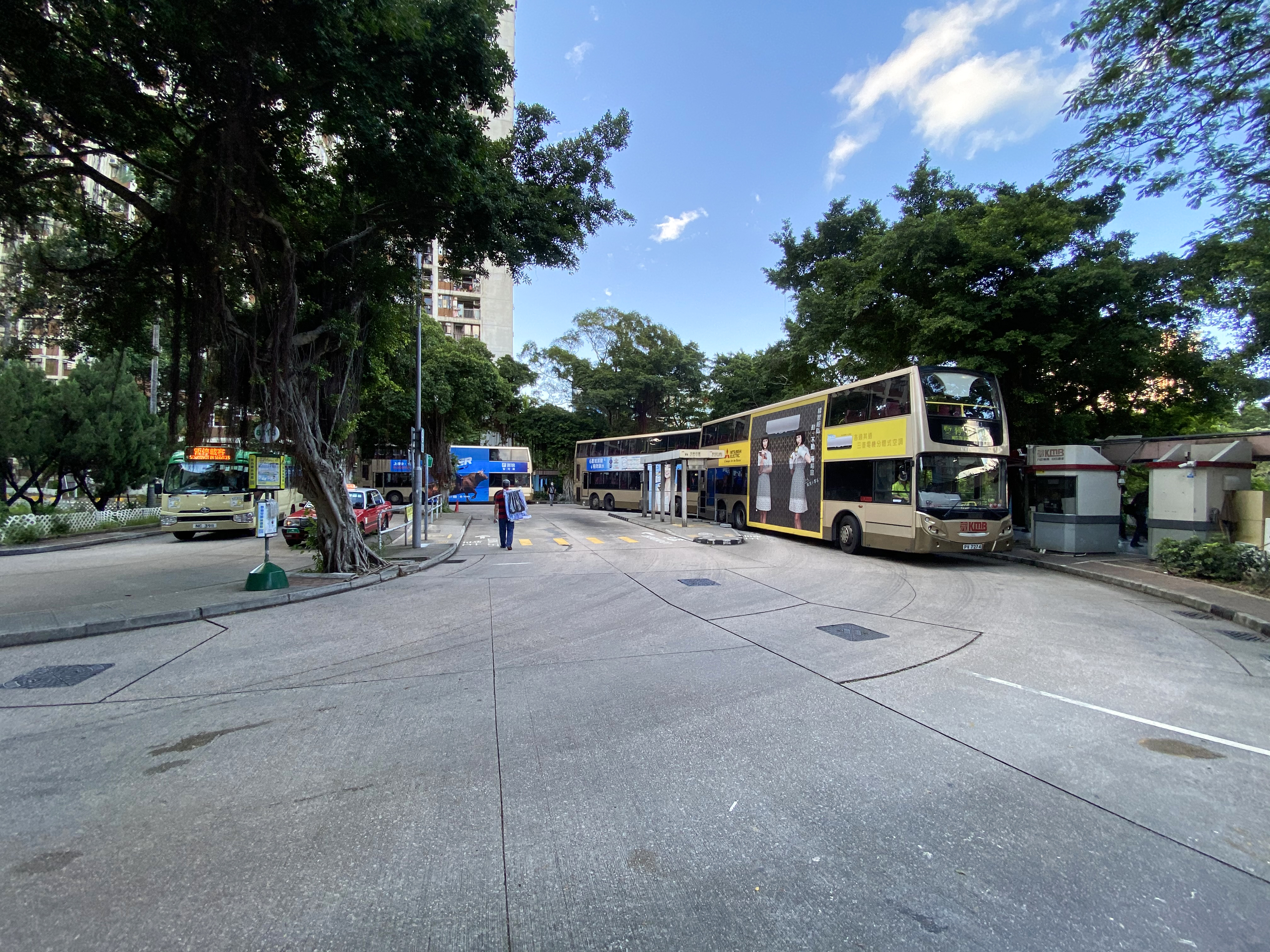 Sui Wo Court